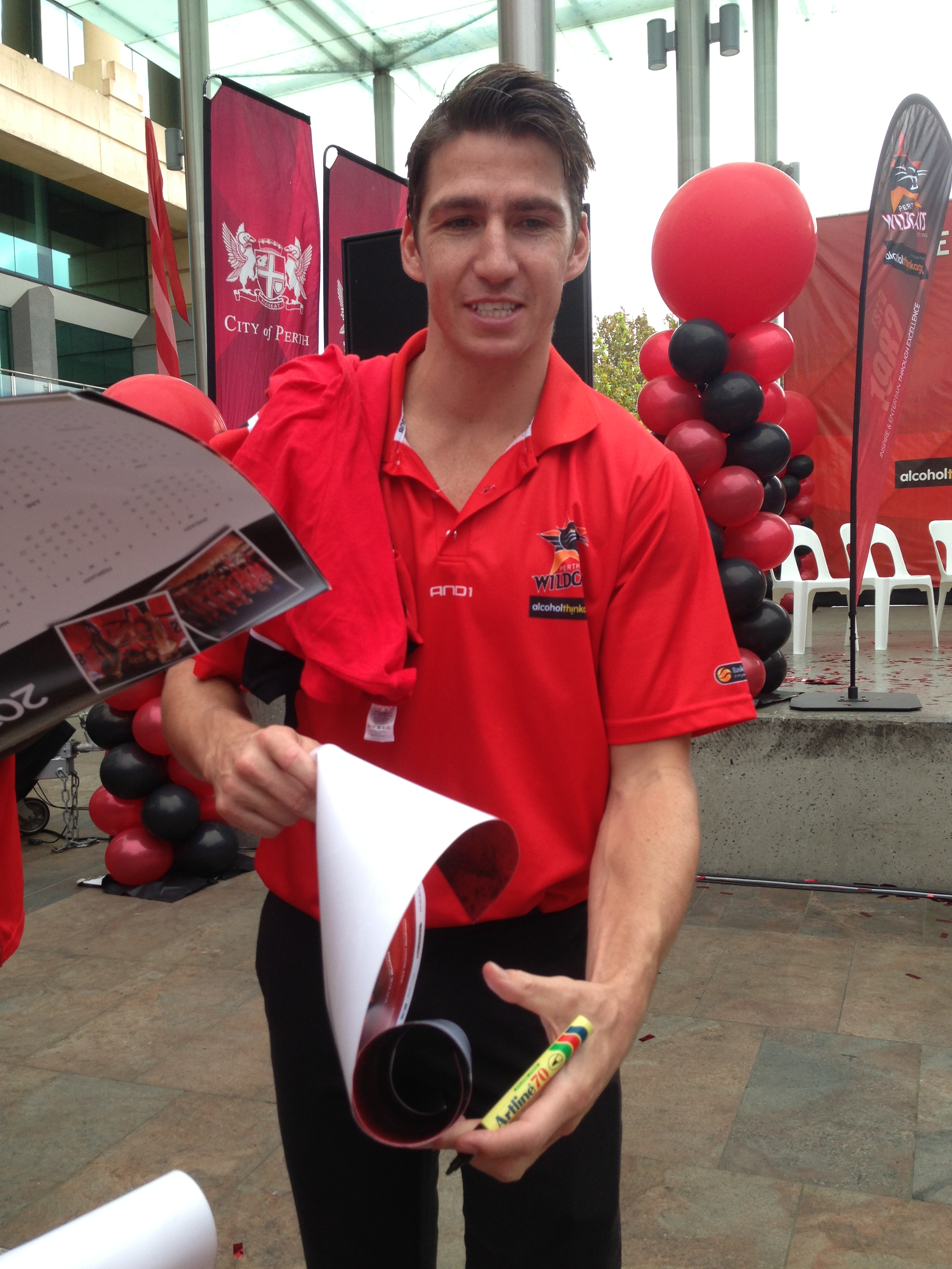 Damian Martin at the Perth Wildcats' 2014 championship ceremony